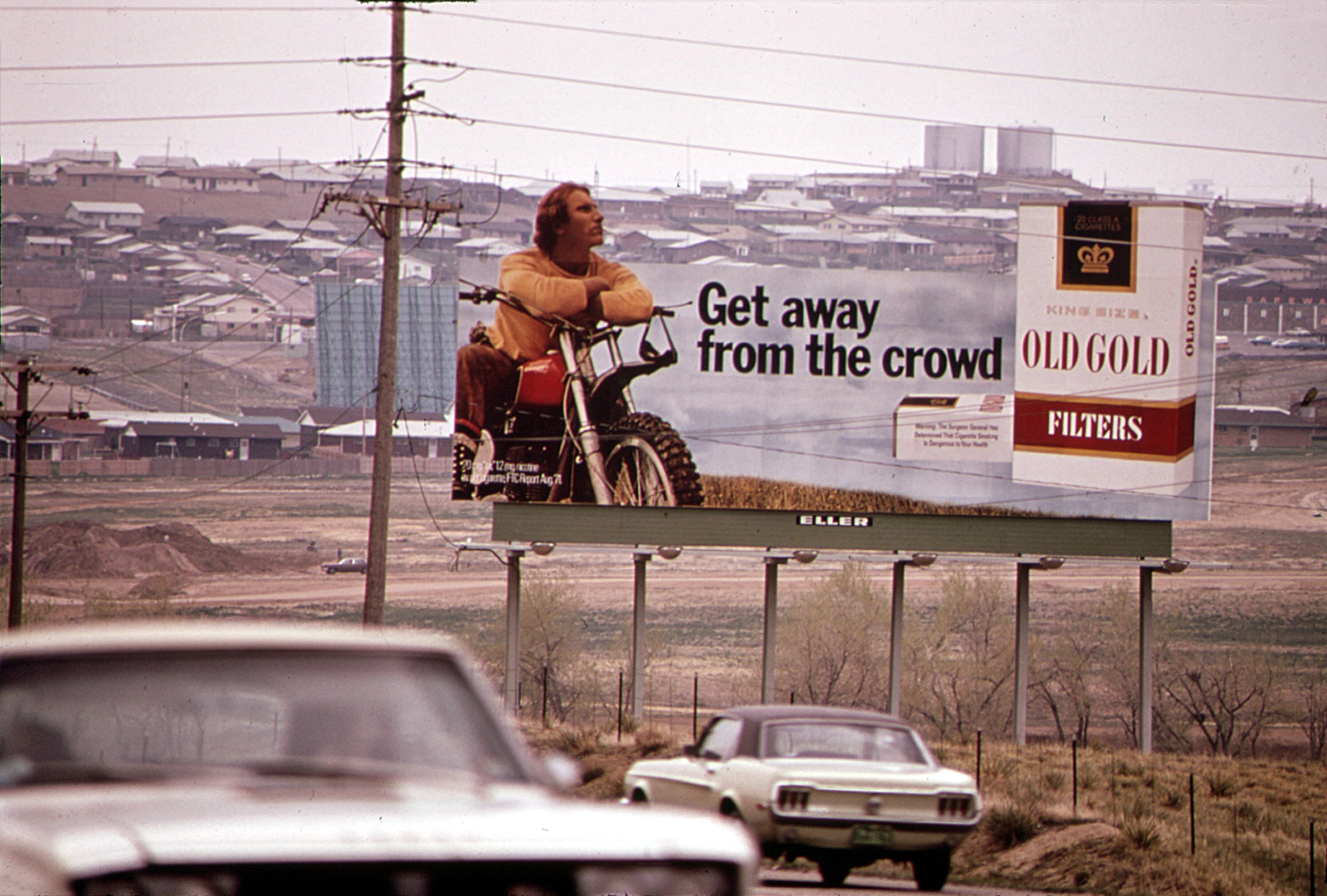 Billboard in Denver Colorado promoting Old Gold cigarettes, a product of Lorillard Tobacco Company (cropped)